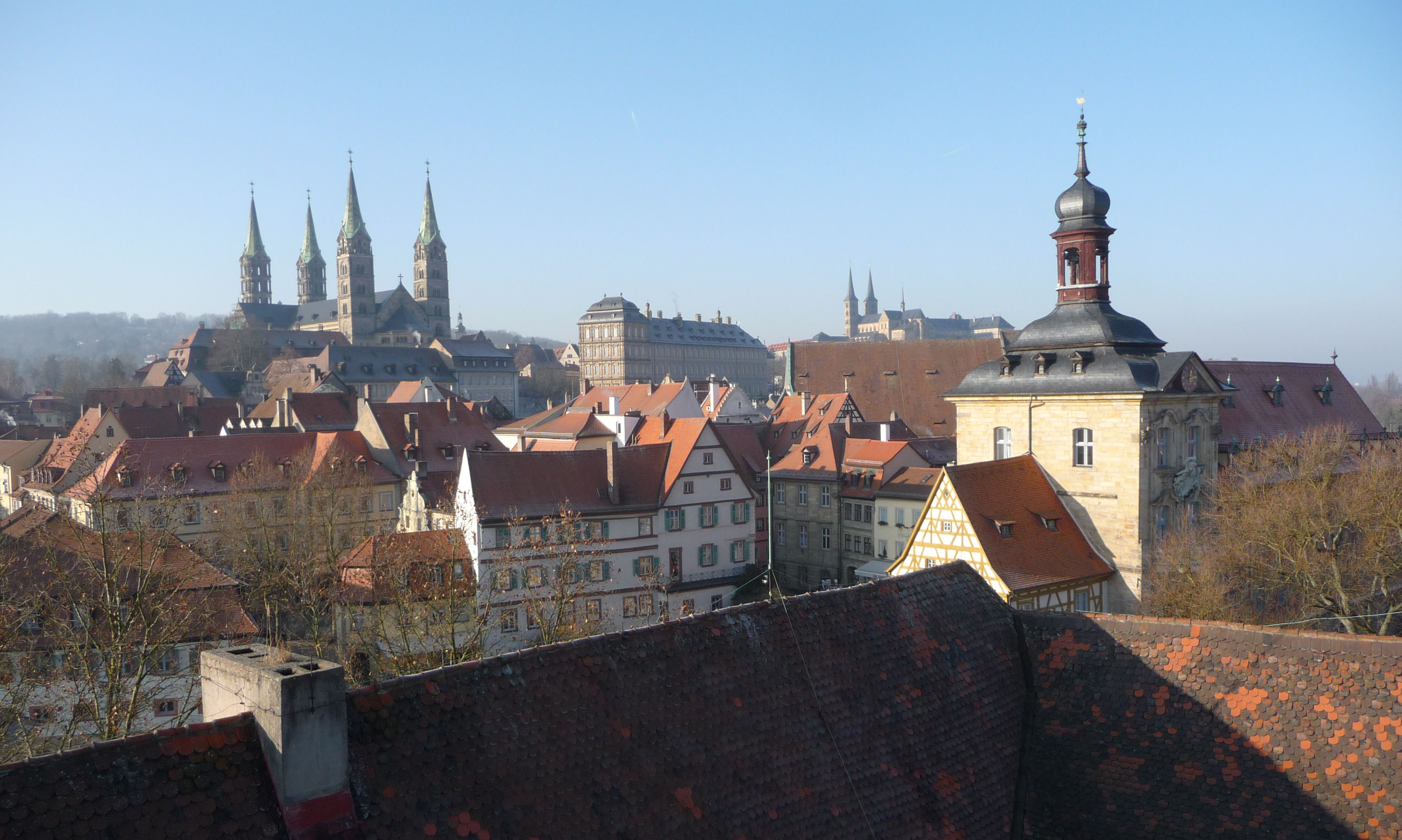 Altes Rathaus (old townhall) in Bamberg, Germany